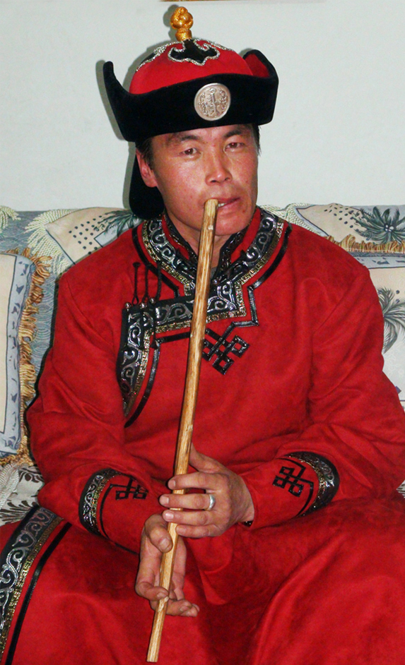 Tsuur - an end-blown flute of Mongols and Xiongnu